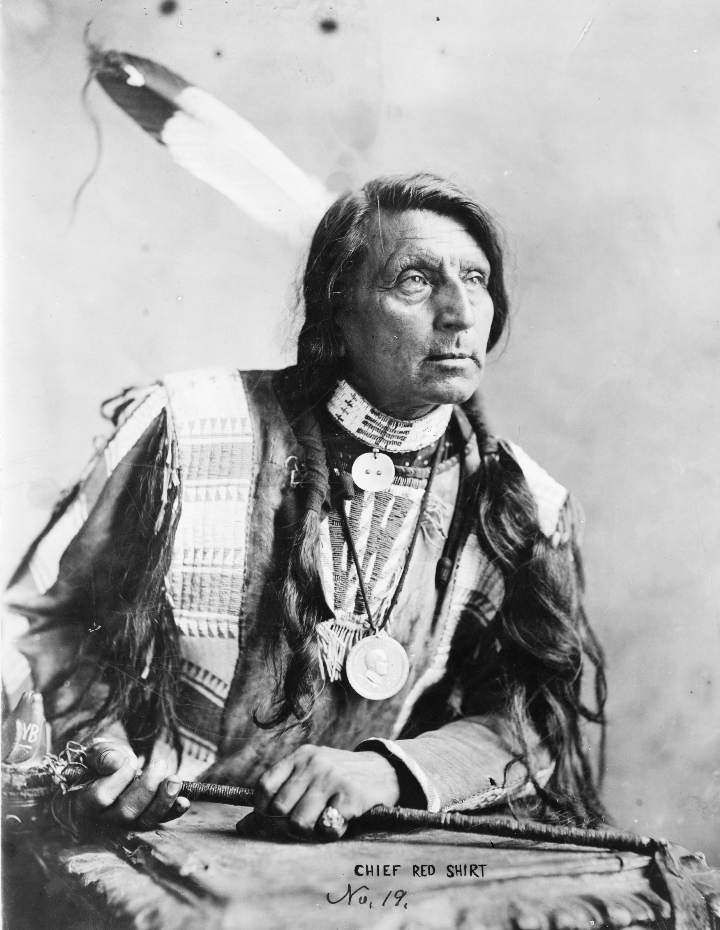 Ogilasa, also known as Red Shirt (Lakota), half-length portrait, facing right, wearing native dress, a President Grant peace medal, and holding tomahawk. (Source: Wild west shows and the images of American Indians) Other information No.